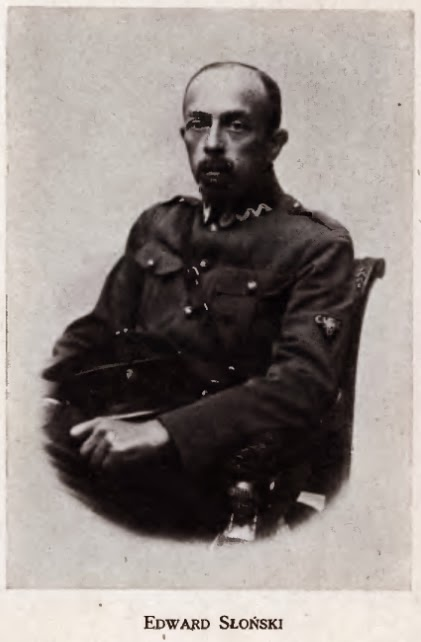 Edward Słoński (1872 - 1926) - Polish poet and writer.